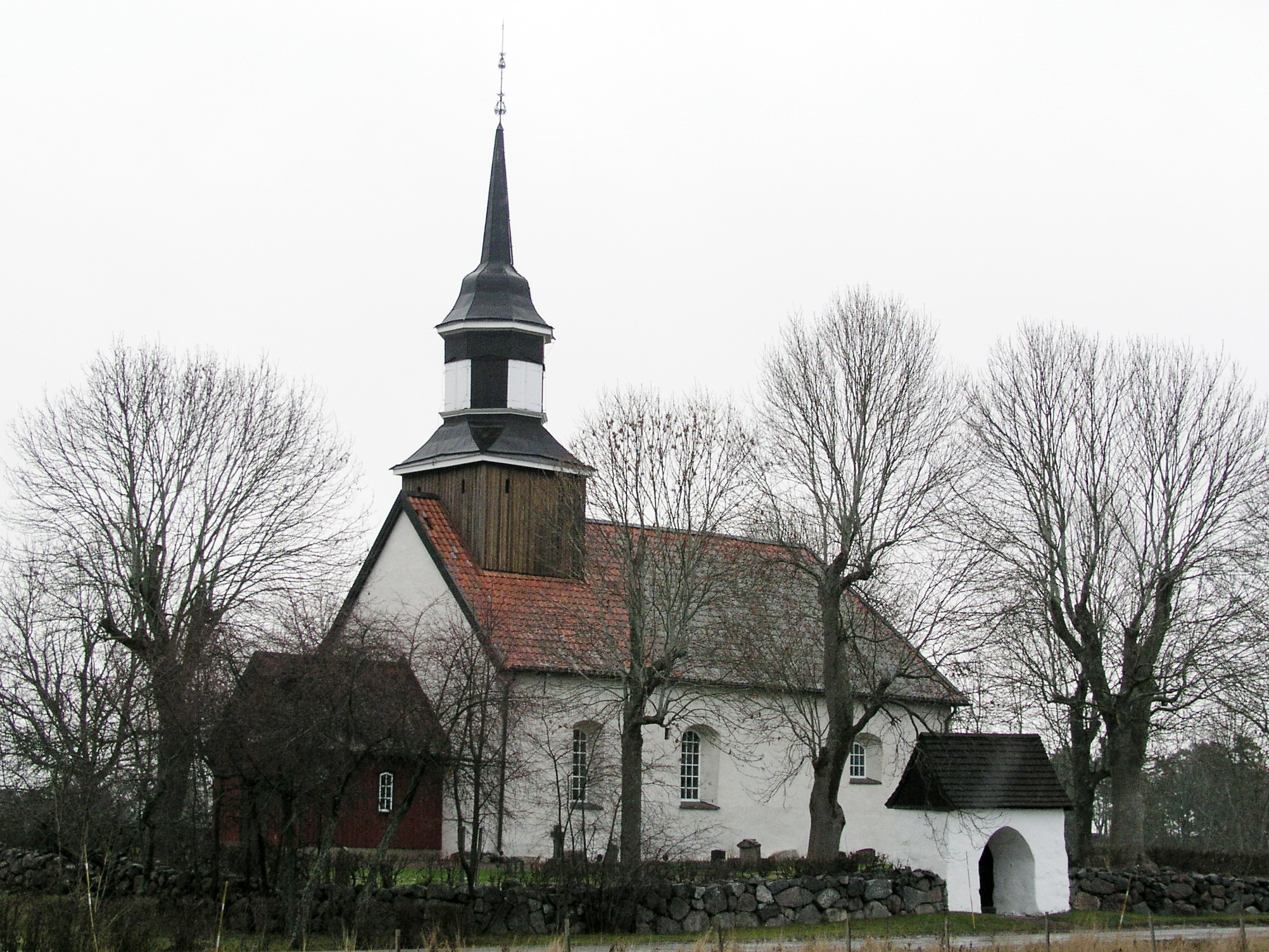 Lillkyrka, tillhörande Linköpings stift, i Lillkyrka, fyra km norr om Gistad i Linköpings kommun i Sverige.